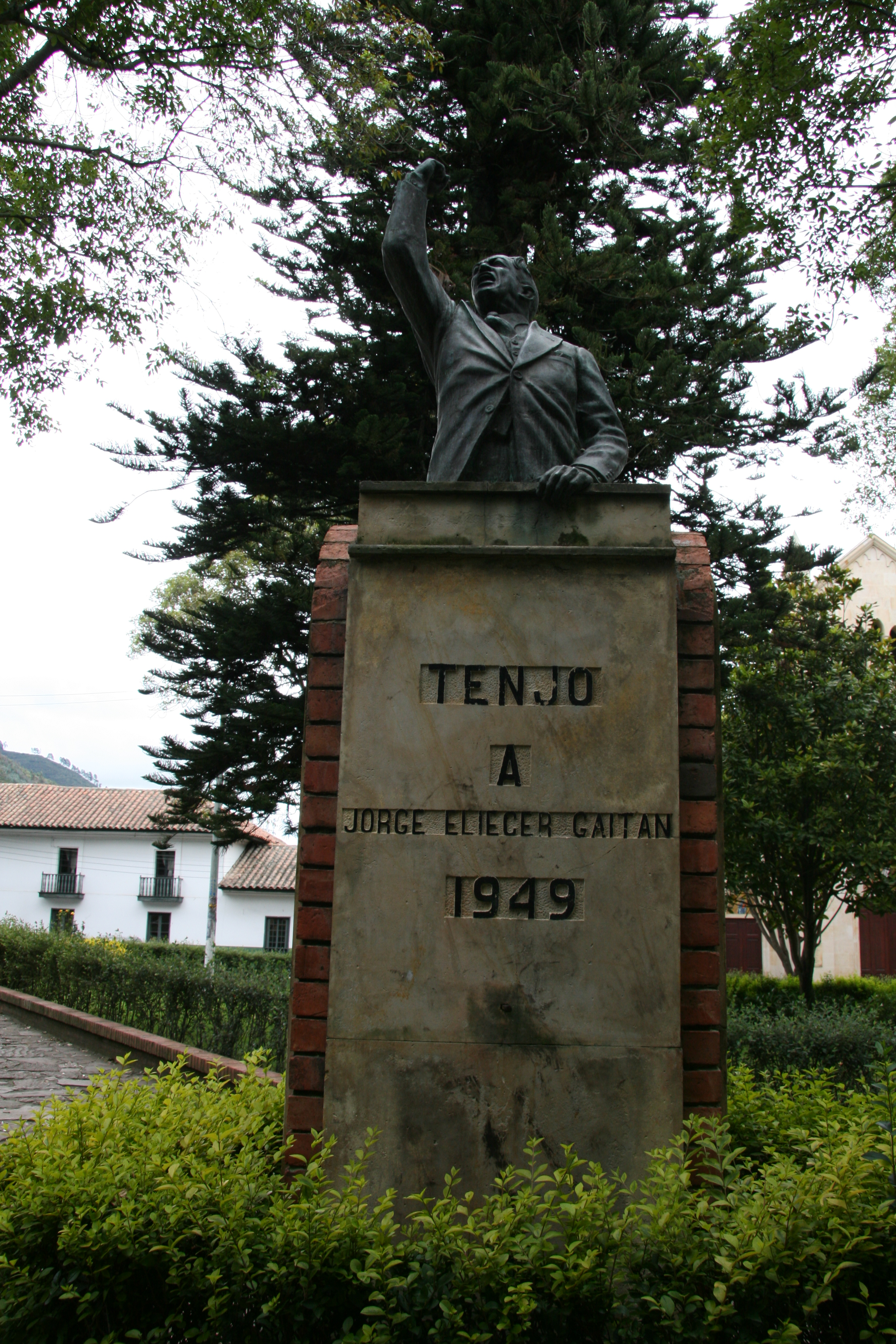 A monument in Tenjo's town center depicting Jorge Eliécer Gaitán.